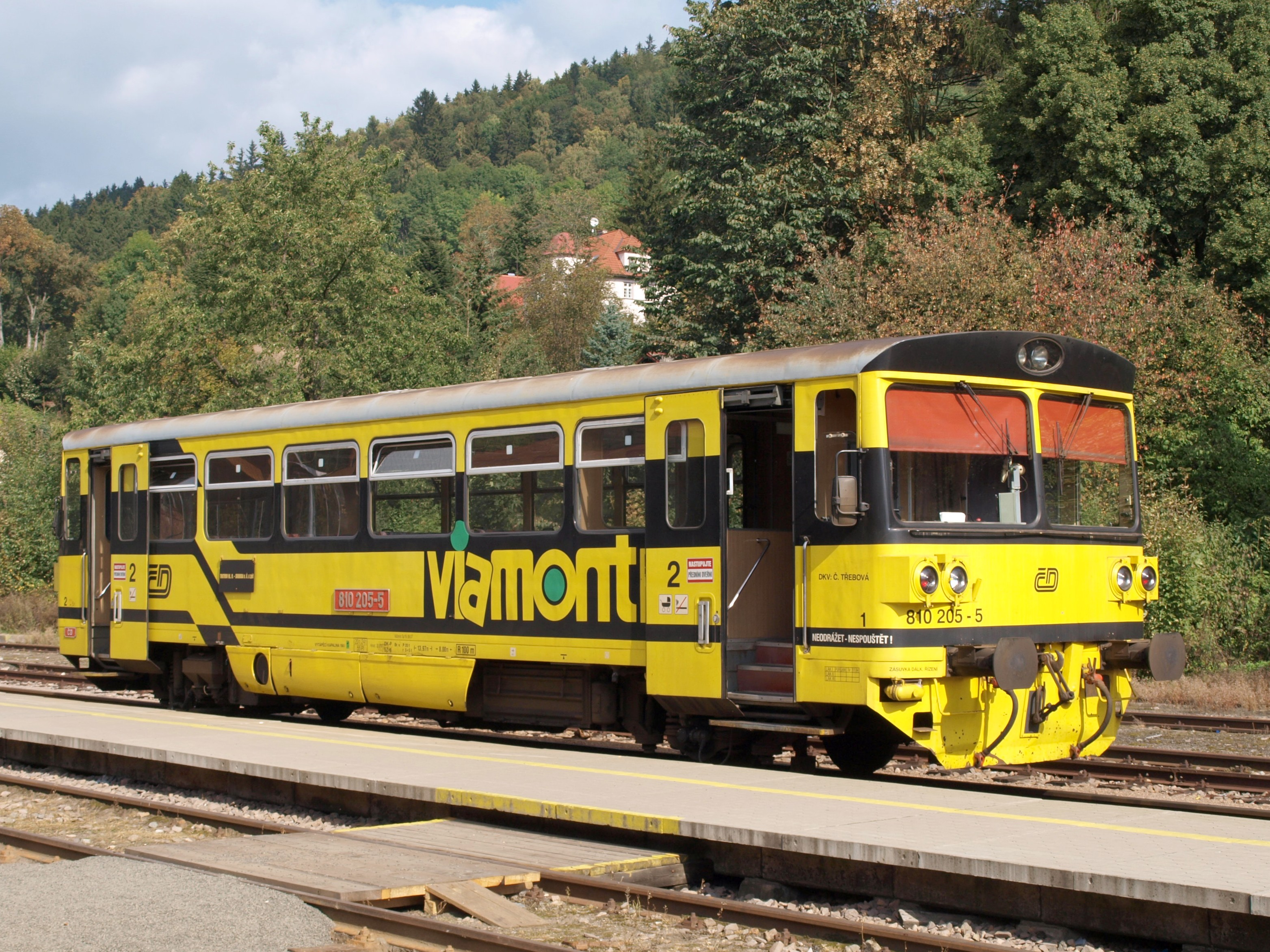 ČD Class 810 at Svoboda nad Úpou train station